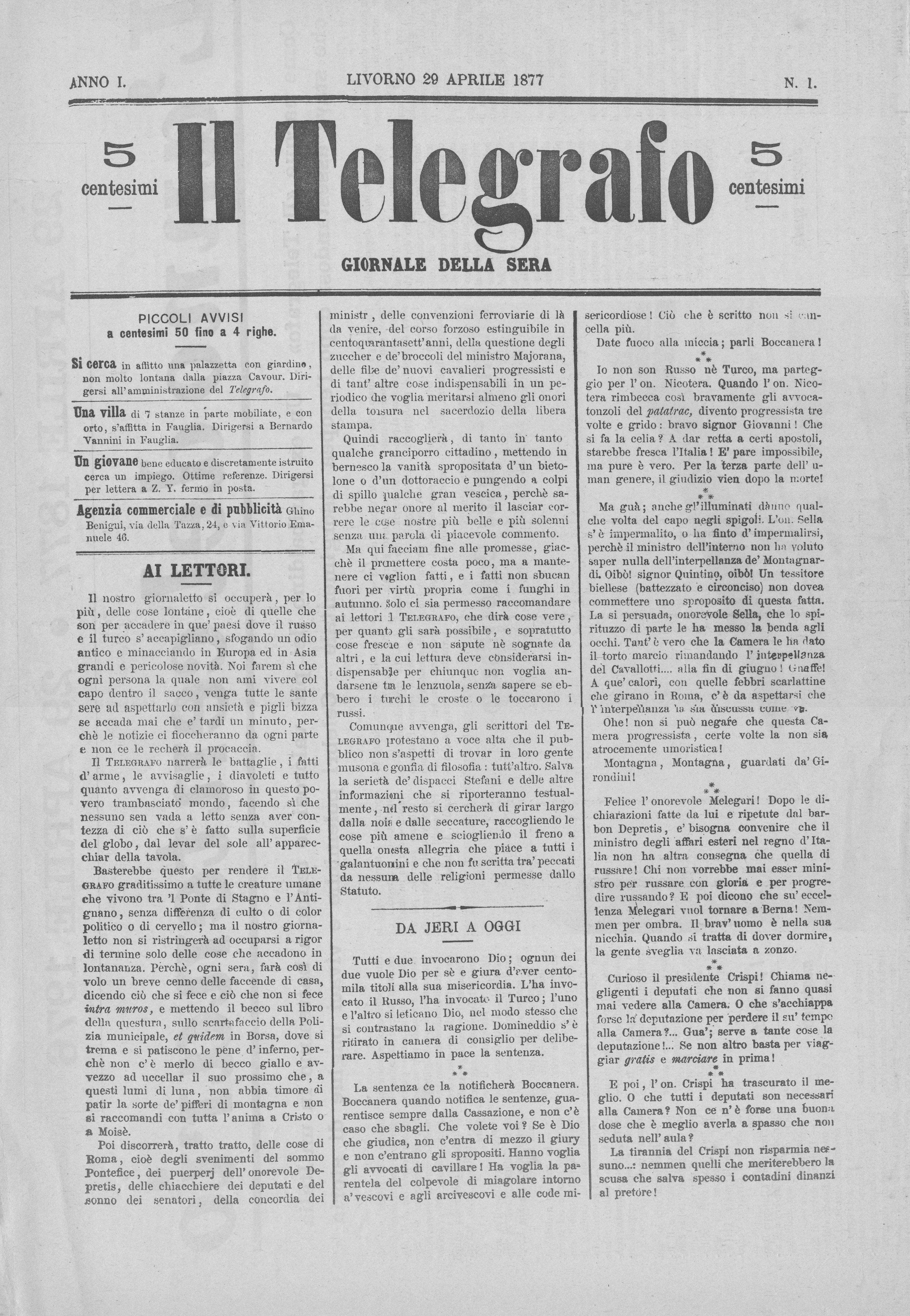 First number of "Il Telegrafo", former Italian newspaper.